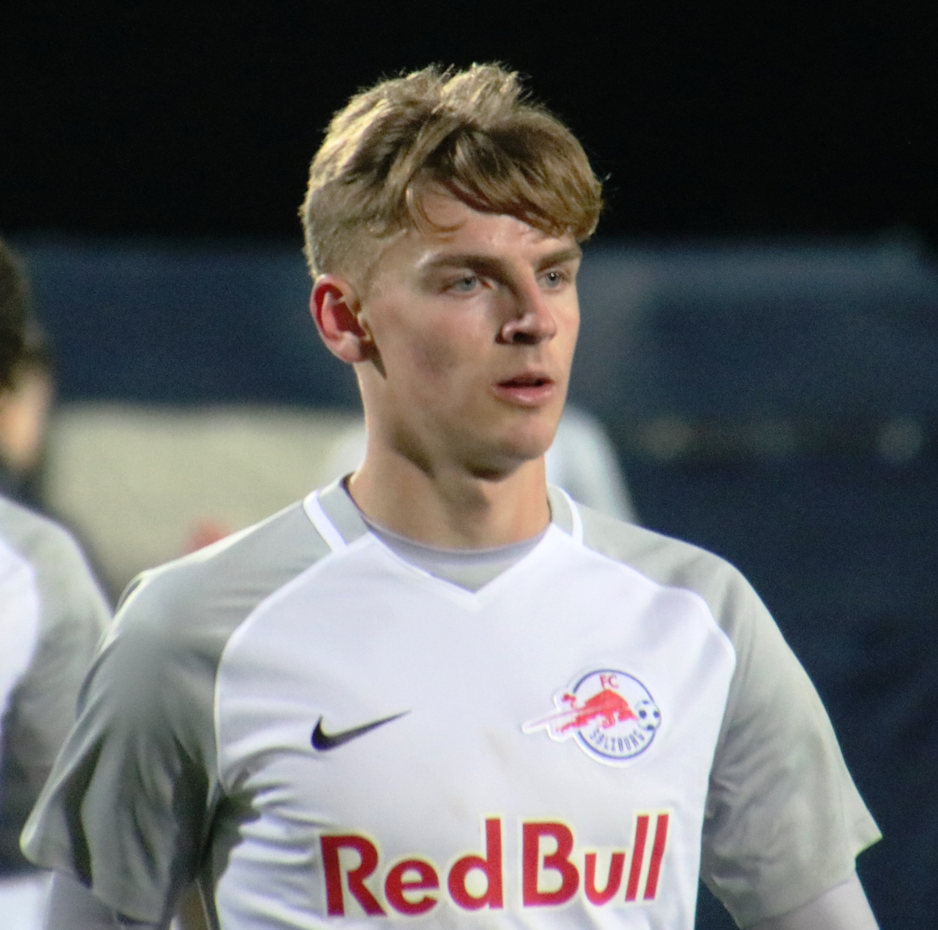 uefa youth league match